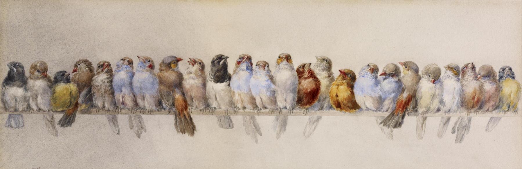 Twenty-four finches, varying in pose and color, are perched in a row. This watercolor is a variant of one of the artist's most popular subjects, "Un bâton de cage." Another variation of this composition in the Lucas Collection of The Baltimore Museum of Art is inscribed: "Giacomelli a Mr. Lucas affecteux souvenir d'une aquarelle." Henri Beraldi wrote of this artist, "Giacomelli is the Van Huysum [Jan Van Huysum, 1682-1749, Dutch flower-painter] of tiny birds, tender and ravishing, which give the impression of being pensive. The bird is to Giacomelli what the cat is to Lambert [Louis-Eugène Lambert, 1825-1900, French painter who specialized in cat subjects]. A respectable bird must be a Giacomelli bird; A non-Giacomelli bird is a false bird," (H. Beraldi, "Les Graveurs du XIXE siècle," Paris, 1885-92, 7:105).